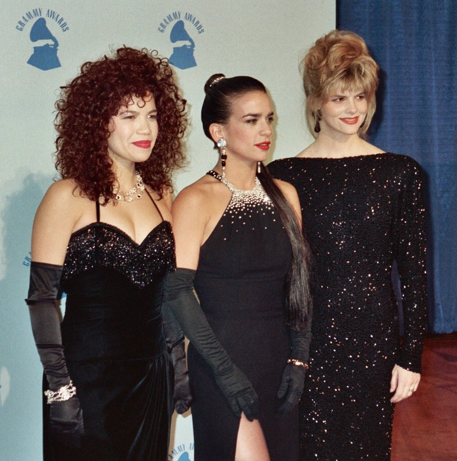 Expose (band) at the 1990 Grammy Awards